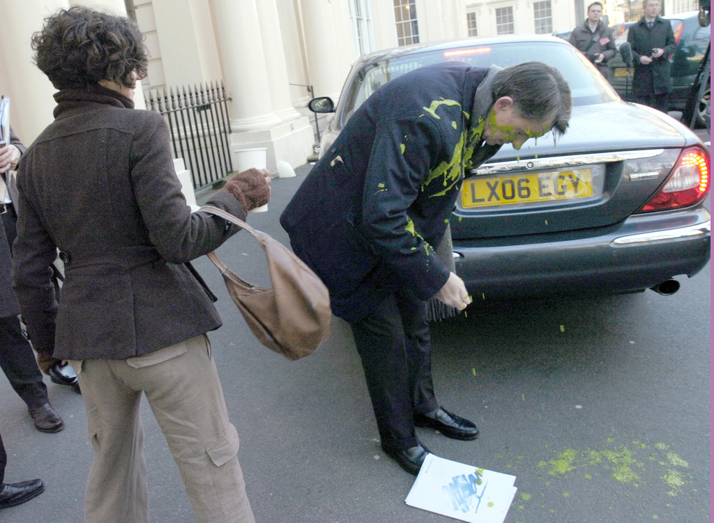 Business secretary Peter Mandelson is slimed by an environmental protestor outside the Royal Society on Carlton House Terrace, Pall Mall after allegations of 'favours for friends' over the Heathrow third runway decision